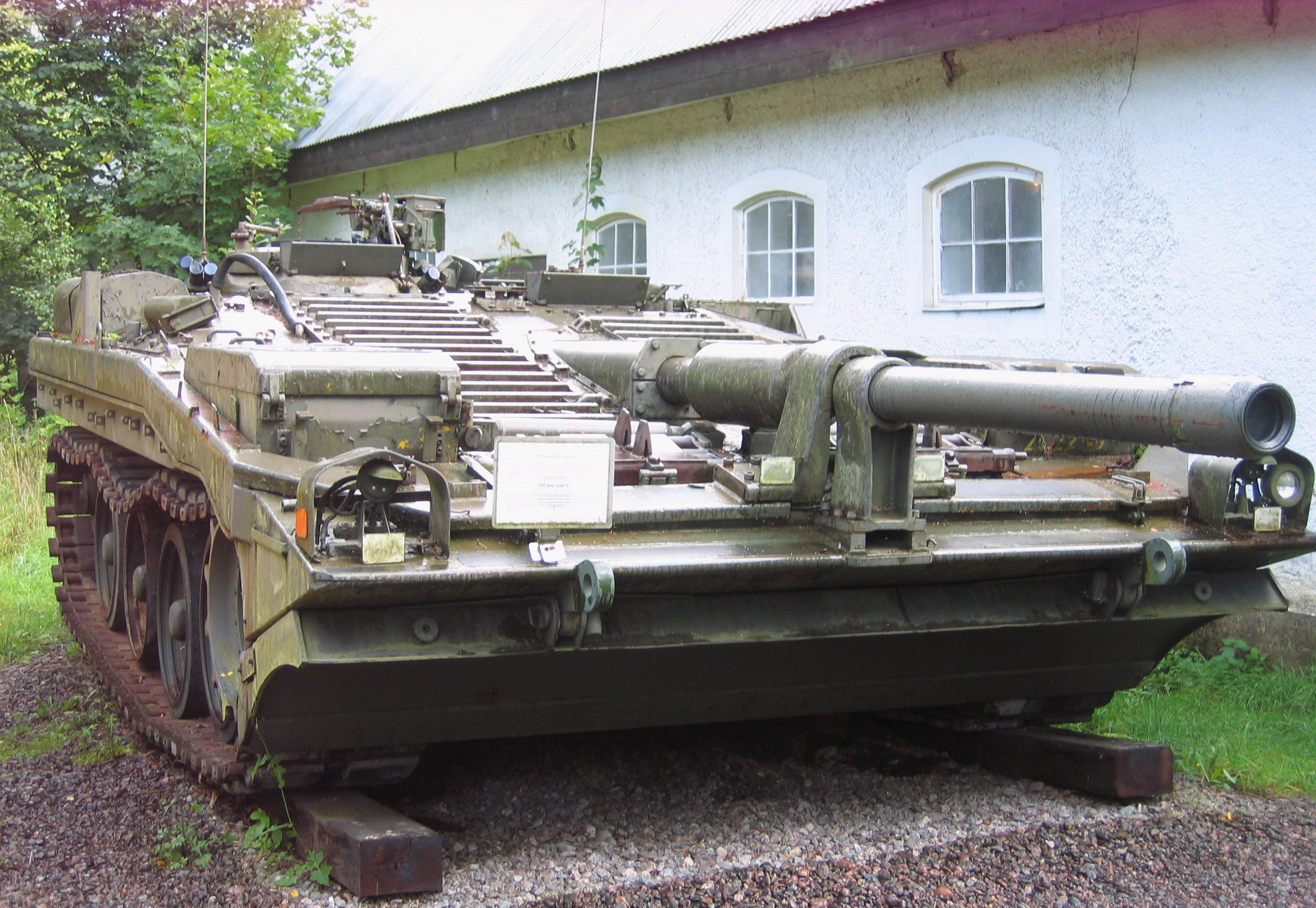 Stridsvagn 103 tank, displayed outside Bofors industrial museum at Björkborn, Karlskoga